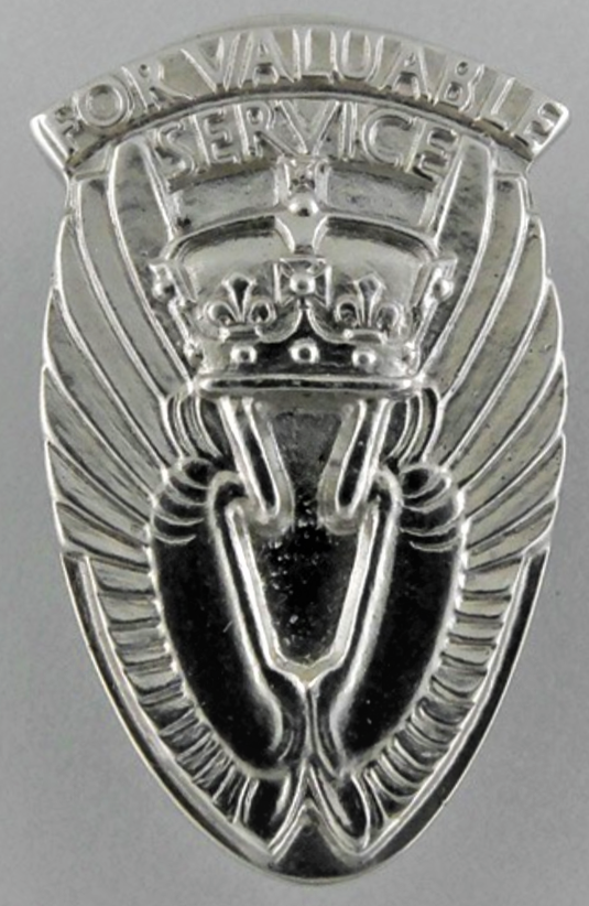 Badge worn in uniform. For acts of bravery while flying, not in the presence of the enemy.